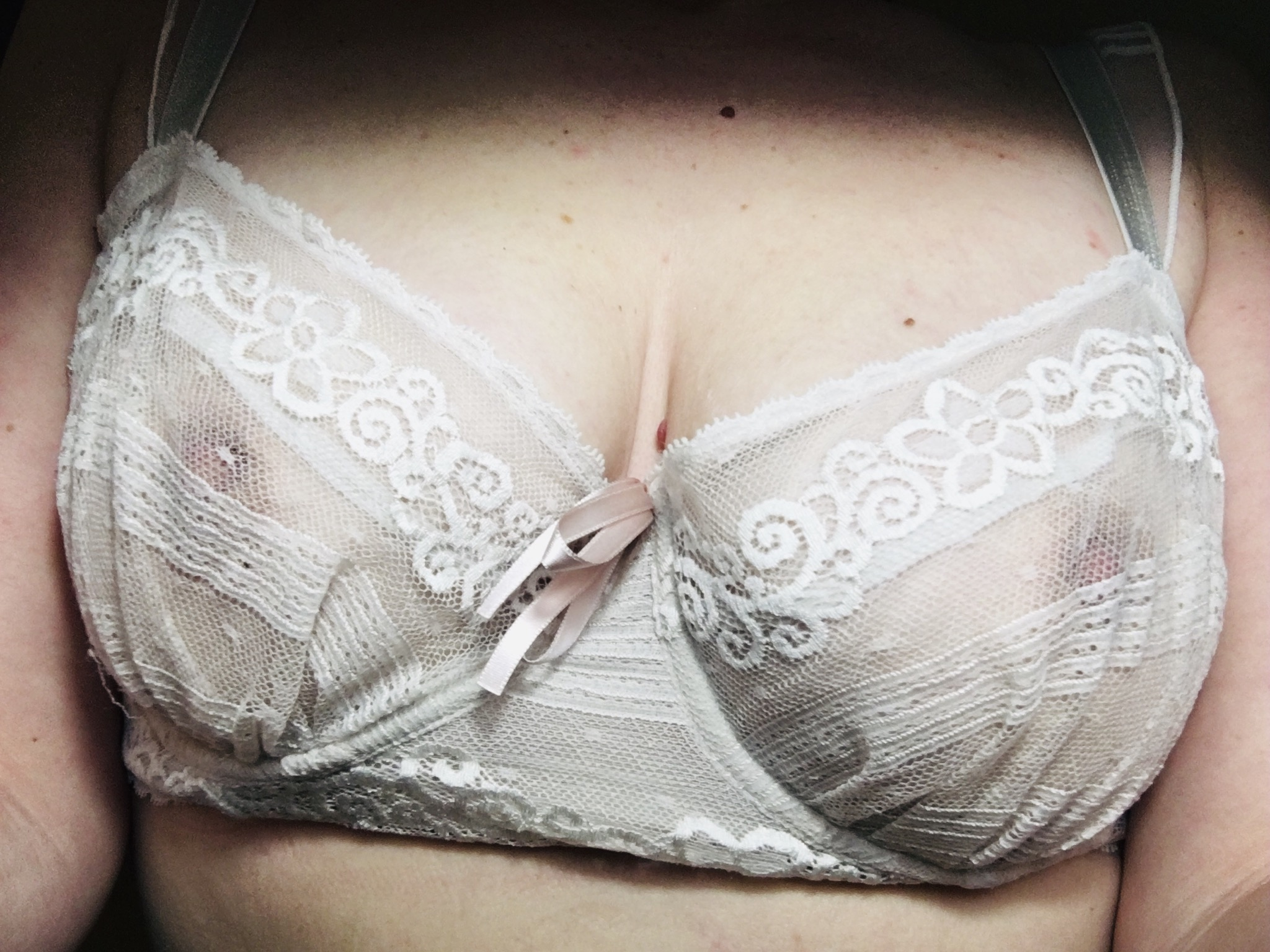 Female breast on wonder bra